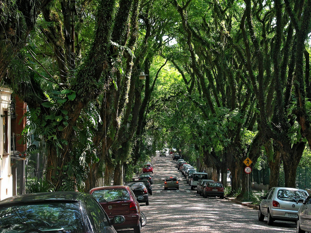 Goncalo de Carvalho Street, in Porto Alegre City, Brazil.